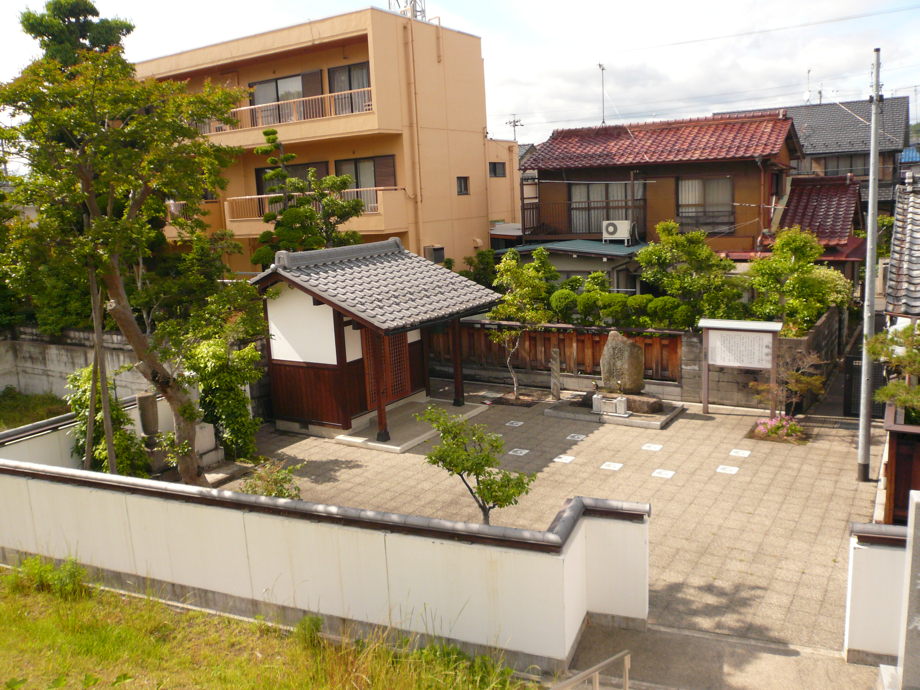 Uzuka, Gifu, Gifu, Japan